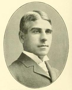 Portrait of attorney Walter Warren Magee, later a Congressman from New York